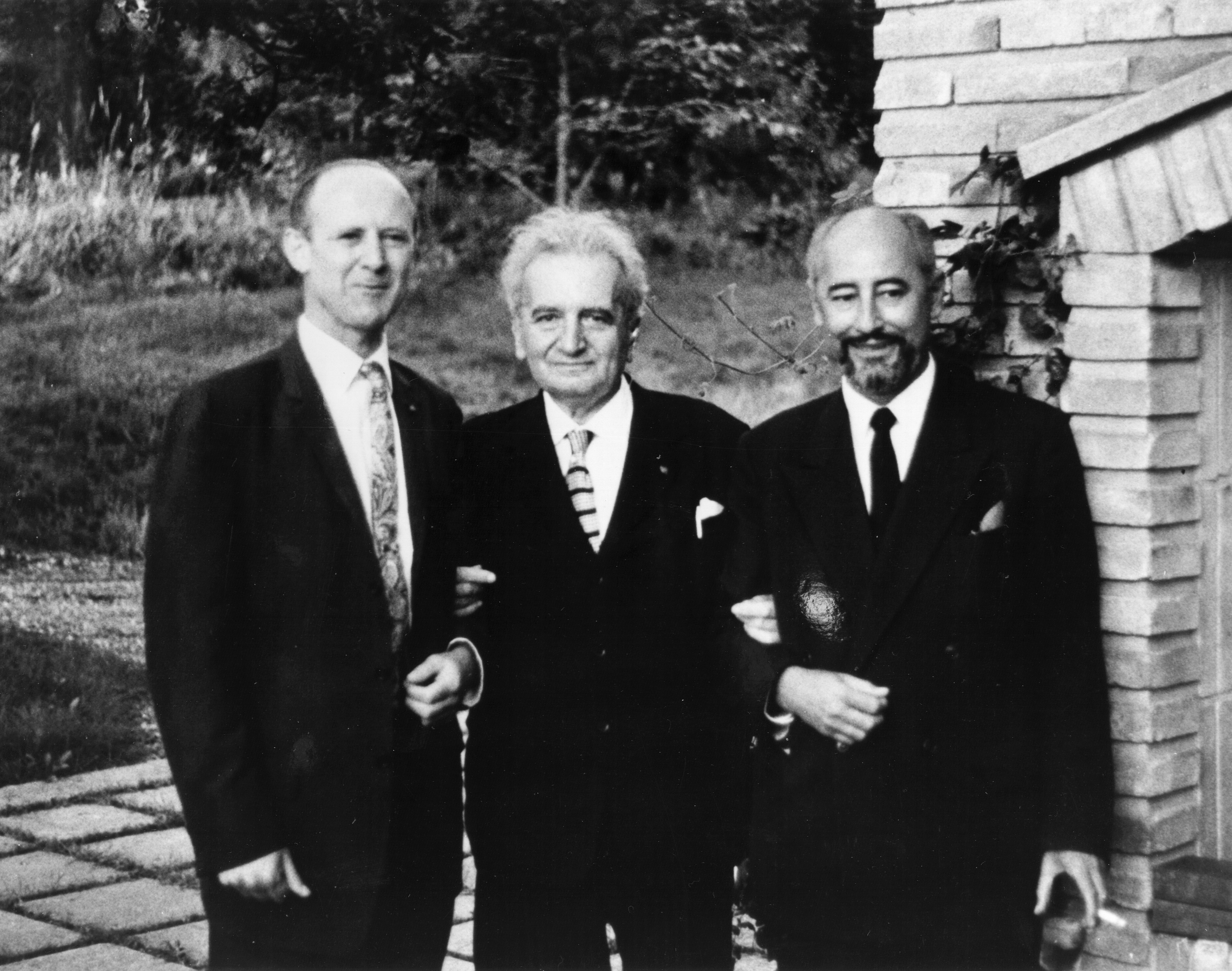 Left to right: Dr. William H. Pickering, former Director of the Jet Propulsion Laboratory (JPL), Dr. Theodore von Karman, JPL co-founder and Dr. Frank J. Malina, co-founder, and first director of JPL.